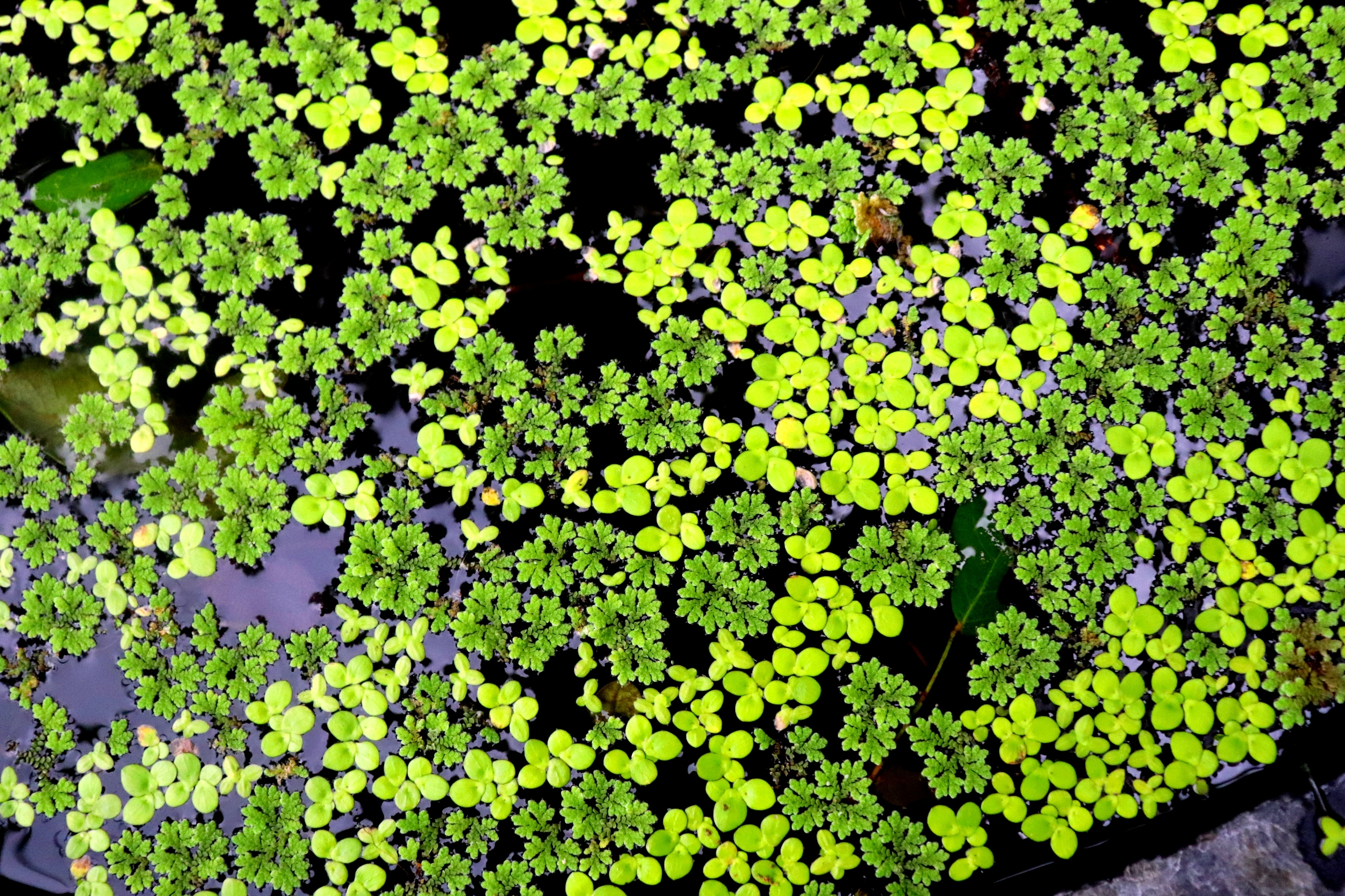 Azolla